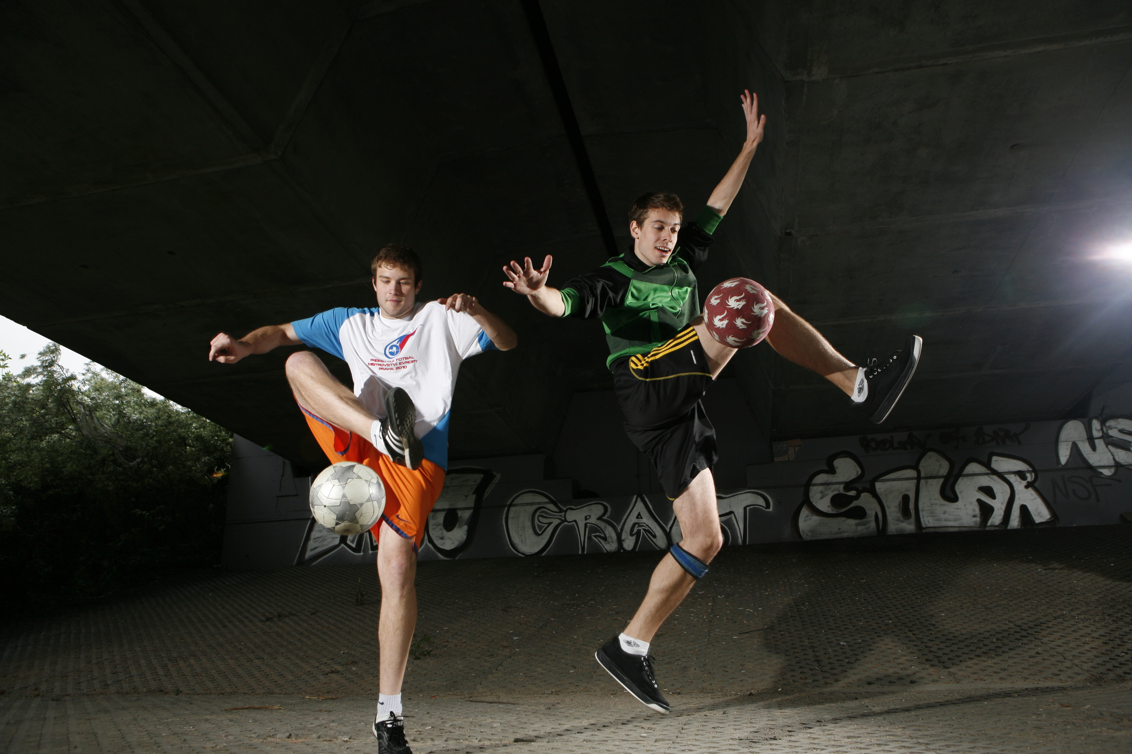 Freestyle football